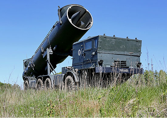 4K44 Redut coastal missile system